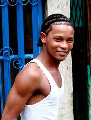 This is a cropped version of the original photo (see source). English-speaking creoles in Bluefields, Nicaragua